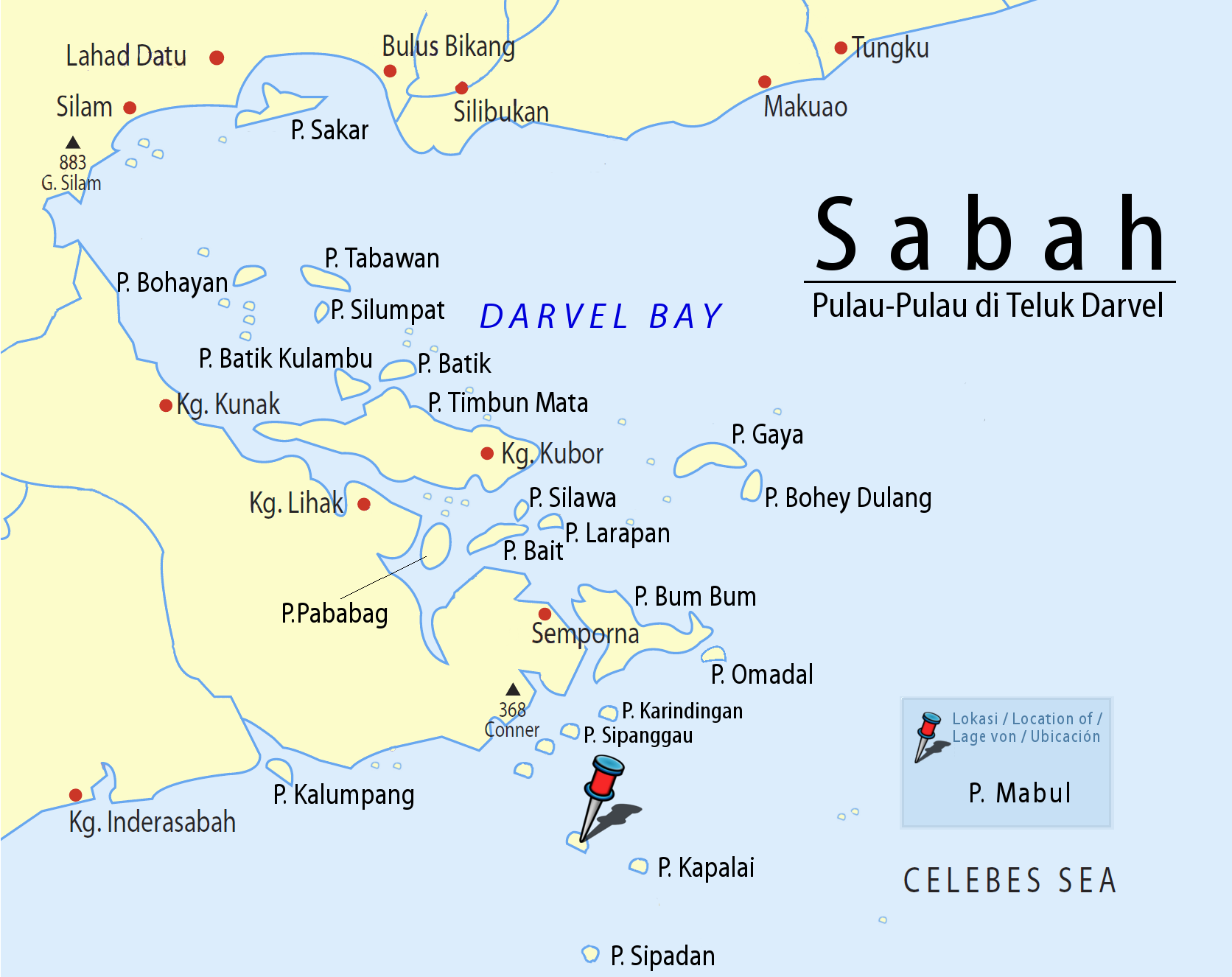 Sabah: Scheme of Islands in the Darvel Bay with Pushpin Marker for Pulau Mabul (which is not part of the Darvel Bay)